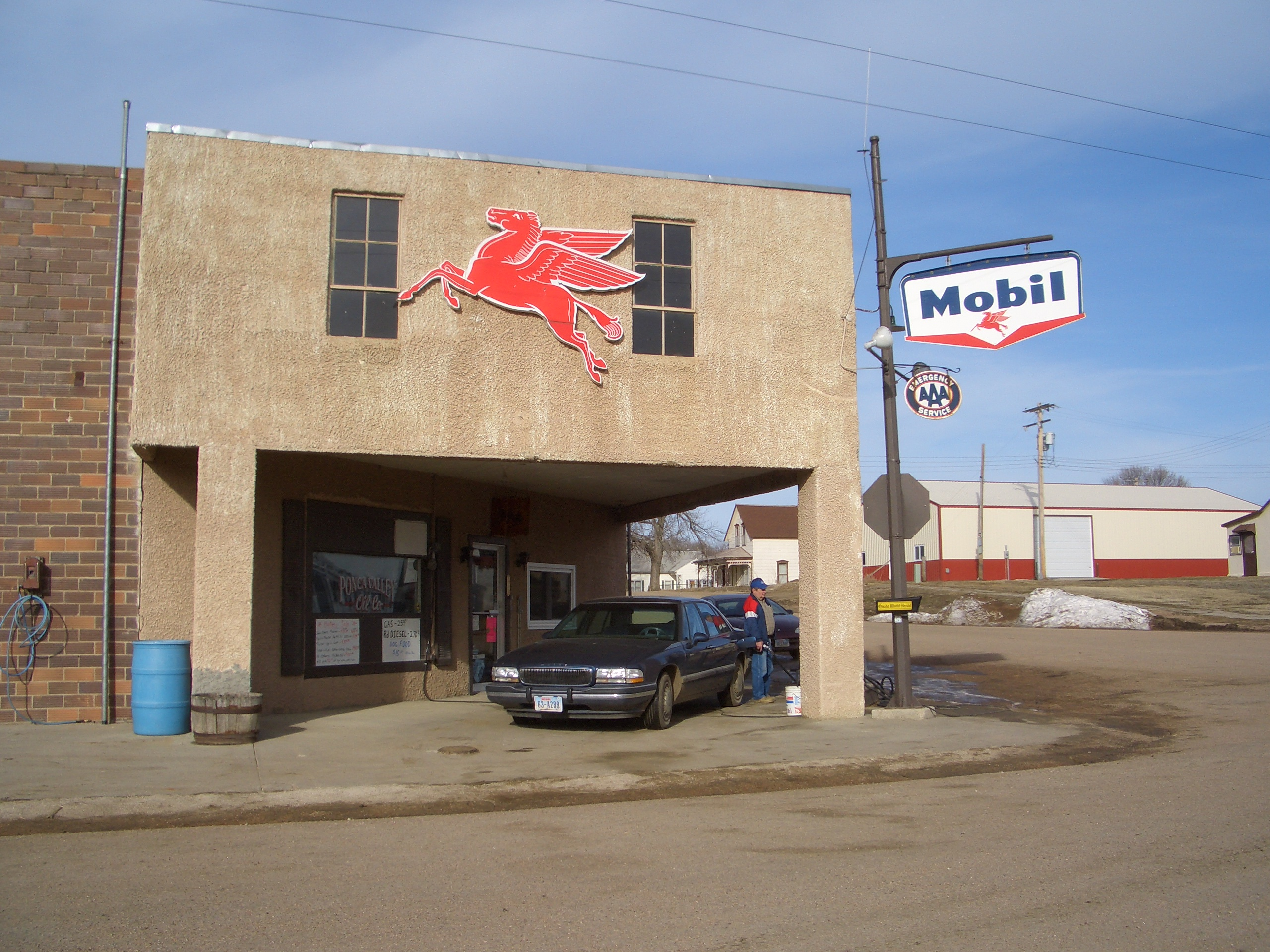 Old-fashioned Mobil gasoline station in Lynch, Nebraska, USA